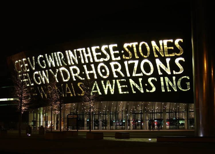 Cardiff Millennium Centre, Cardiff Bay.